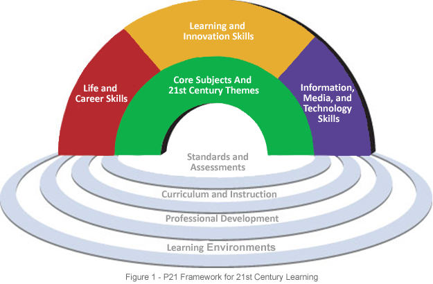 Framework for 21st Century Learning